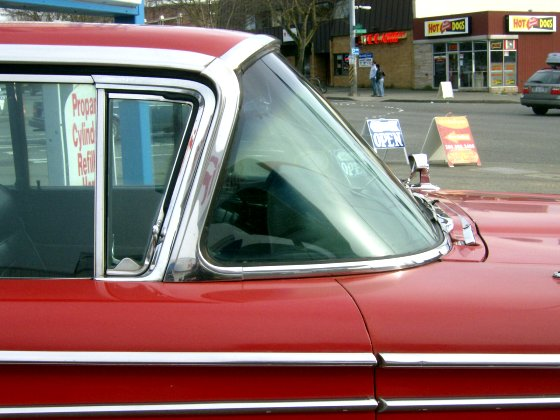 A panoramic windshield on a 1959 Edsel Corsair, taken by Sofar No. 2. Sofar 2 08:57, 1 April 2007 (UTC)